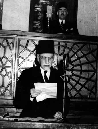 Syria's new President Hashim al-Atassi, elected by a unanimous vote in Parliament in December en:1949 to replace the dictatorship of General Husni al-Zaiim. This was the second Atassi administration, having served in office from 1936-1939.